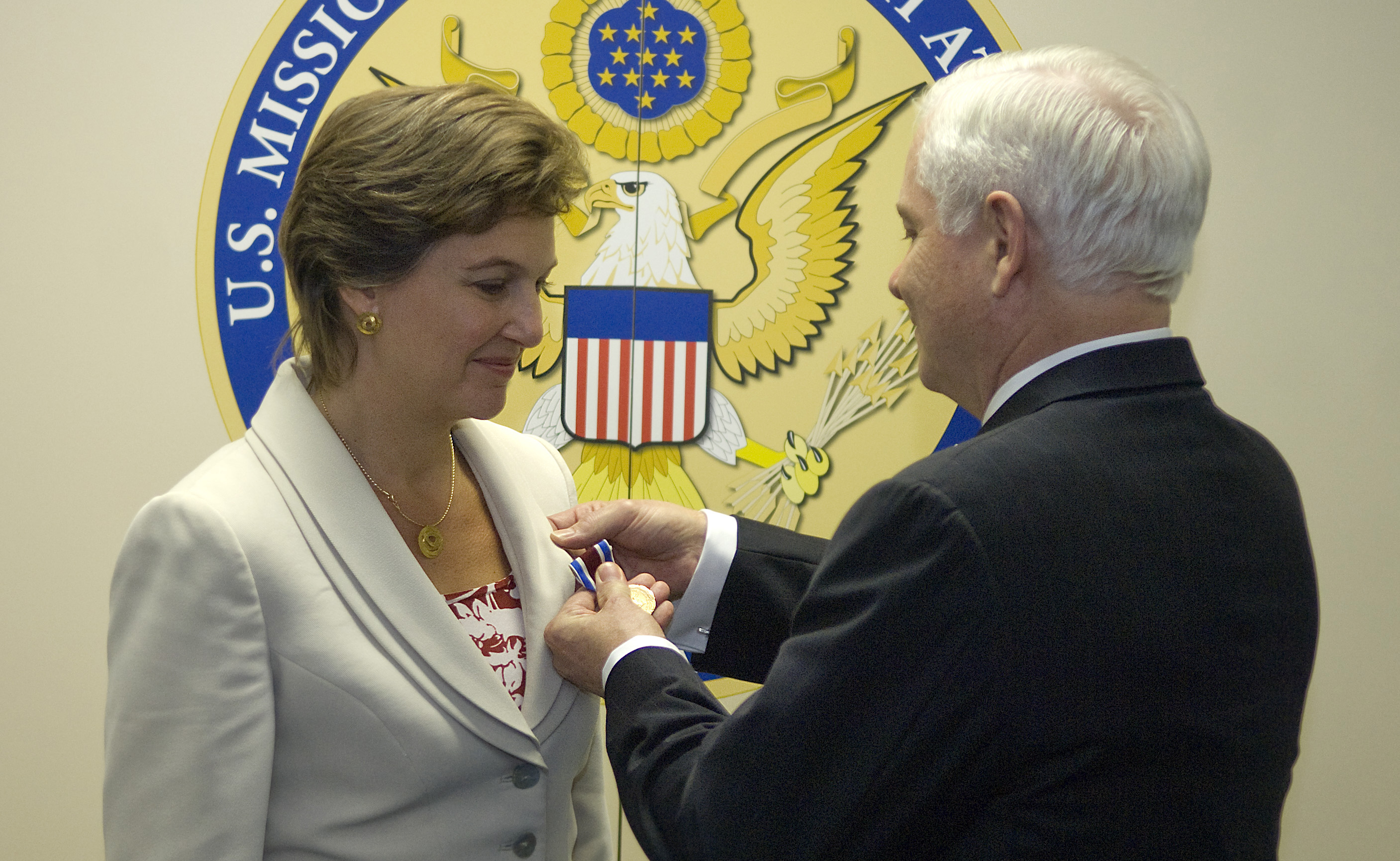 Defense Secretary Robert M. Gates presents the Department of Defense Distinguished Public Service Award to Victoria Nuland, U.S. ambassador to NATO, during the NATO Defense Ministerial in Brussels, Belgium, June 13, 2008. Defense Dept. photo by Cherie Cullen